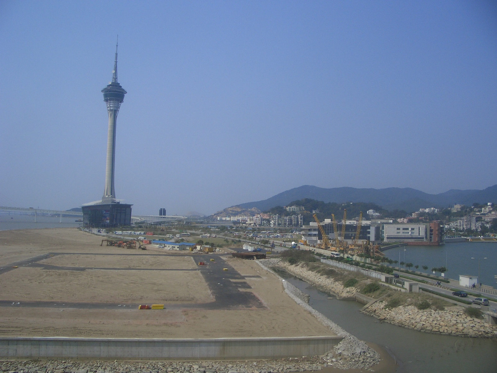 Photo taken by 9old9